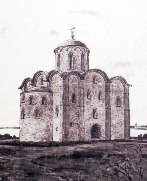 Annunciation Church in Rurik Gorodishche. Reconstructed 14th century look.